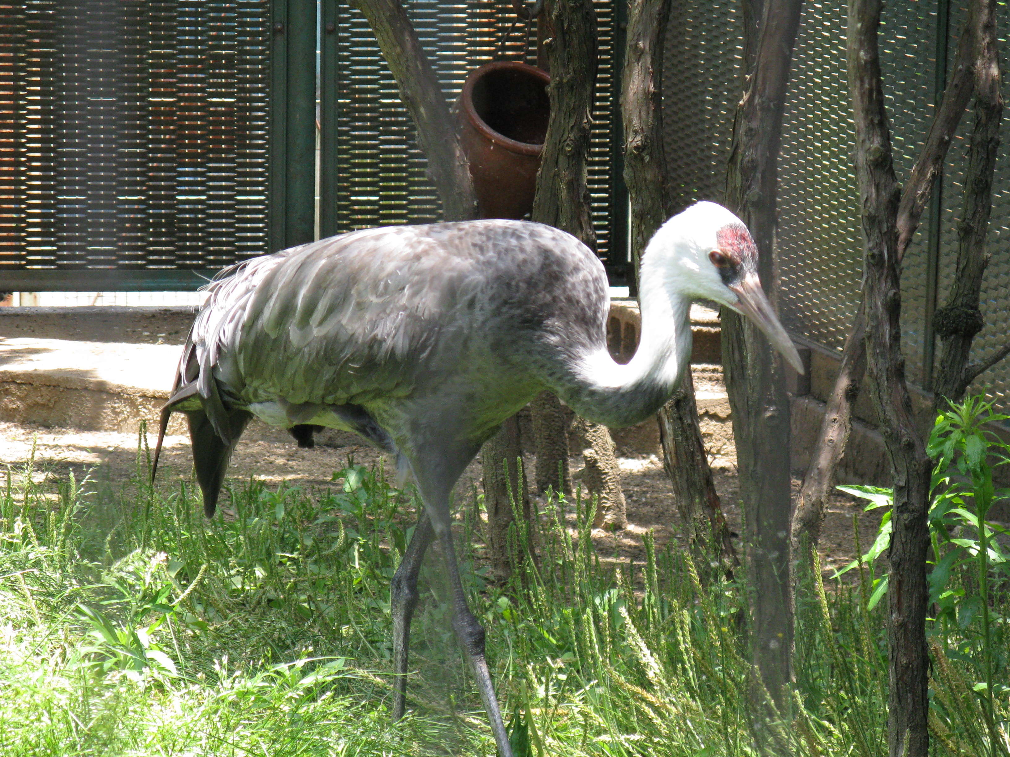 Scientific name Grus monacha